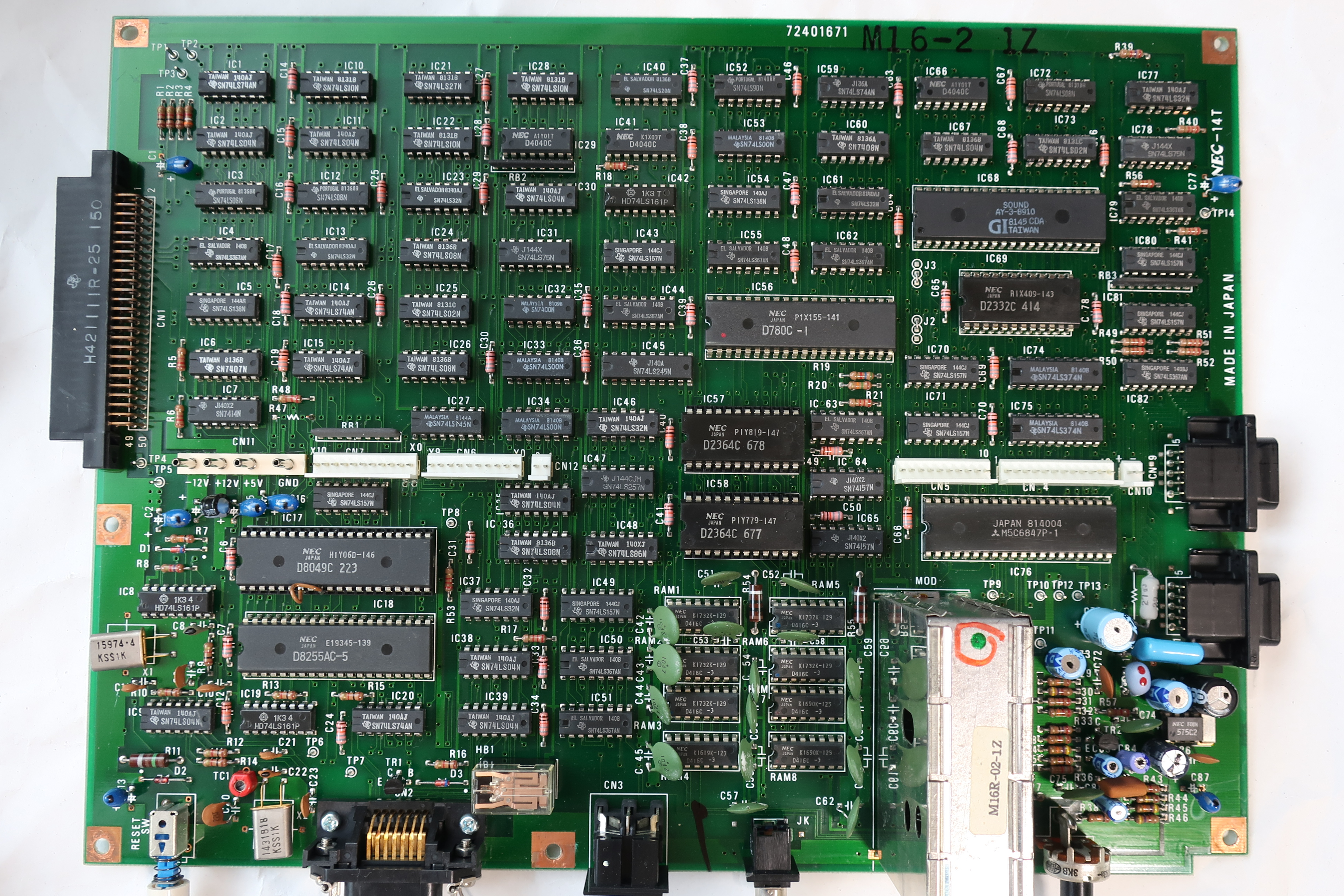 NEC PC-6001 motherboard manufactured in December 1981.